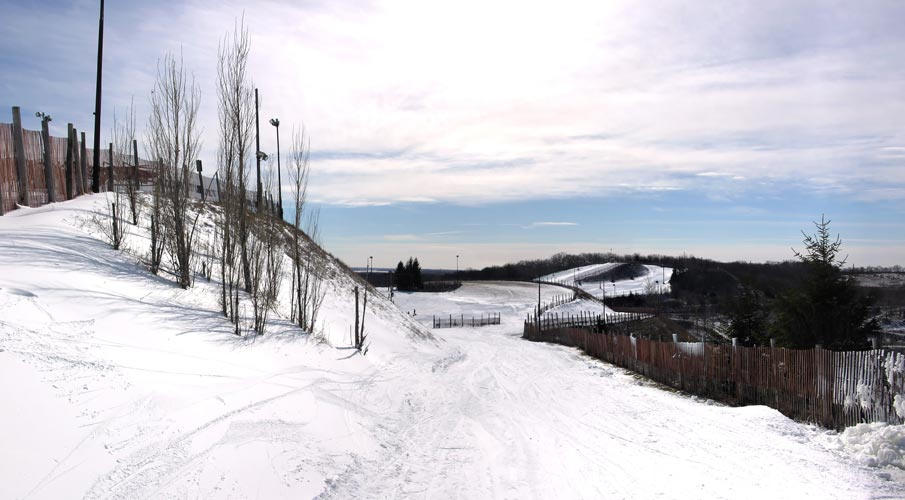 Wilmot Mountain Ski Resort. Upper Cat Trail, the Blue area behind the mountain top. Wilmot, Wisconsin.